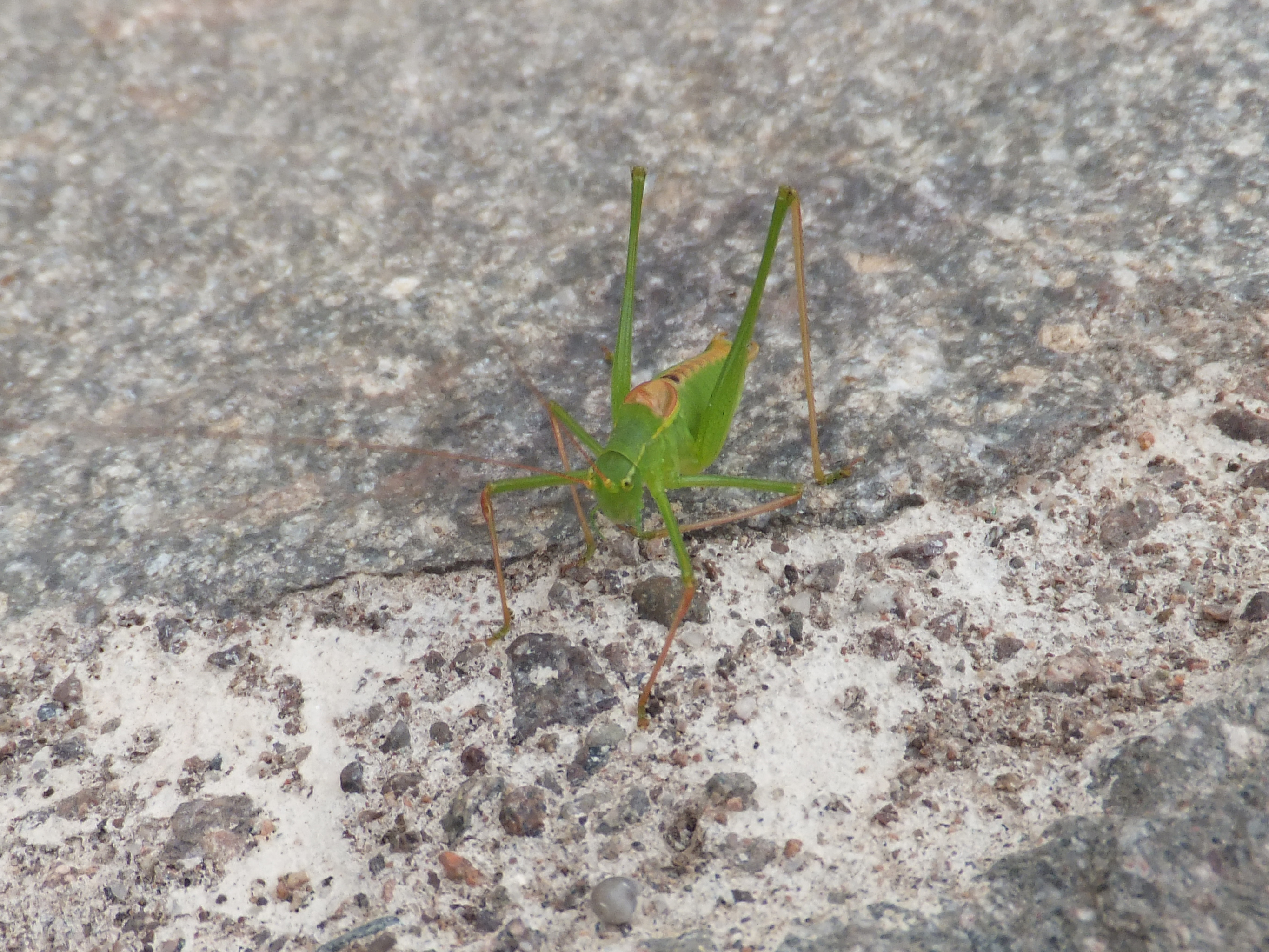 A male of Leptophyes laticauda